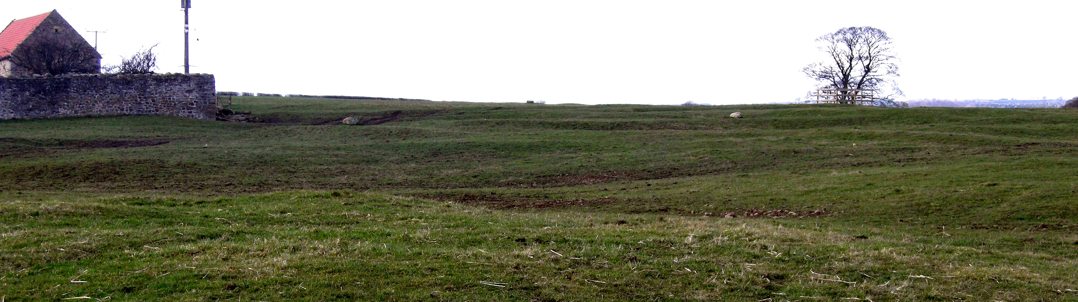 The lost village of Ulnaby, County Durham, England. Occupied 13th-16th century; now visible only as lumps and bumps in a field at Ulnaby Hall Farm. Picture adjusted to show up lumps and bumps in ground. Garth field showing old earthworks around toft enclosure.